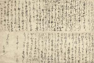 Takuan Soho letter to Itamiya Sofu